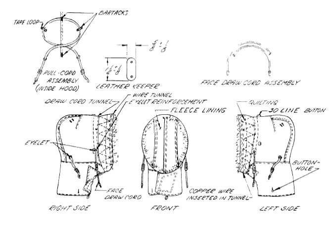 Extreme cold weather hood for use with the M65 field jacket